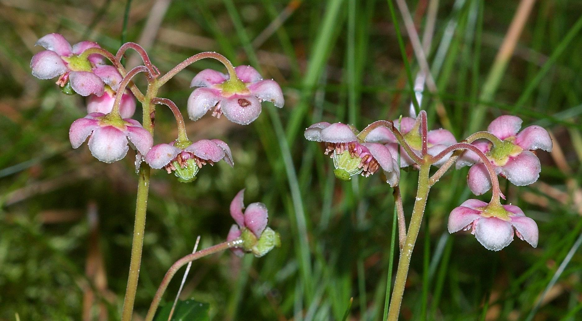 Flowering Chimaphila umbellata ssp. umbellata.